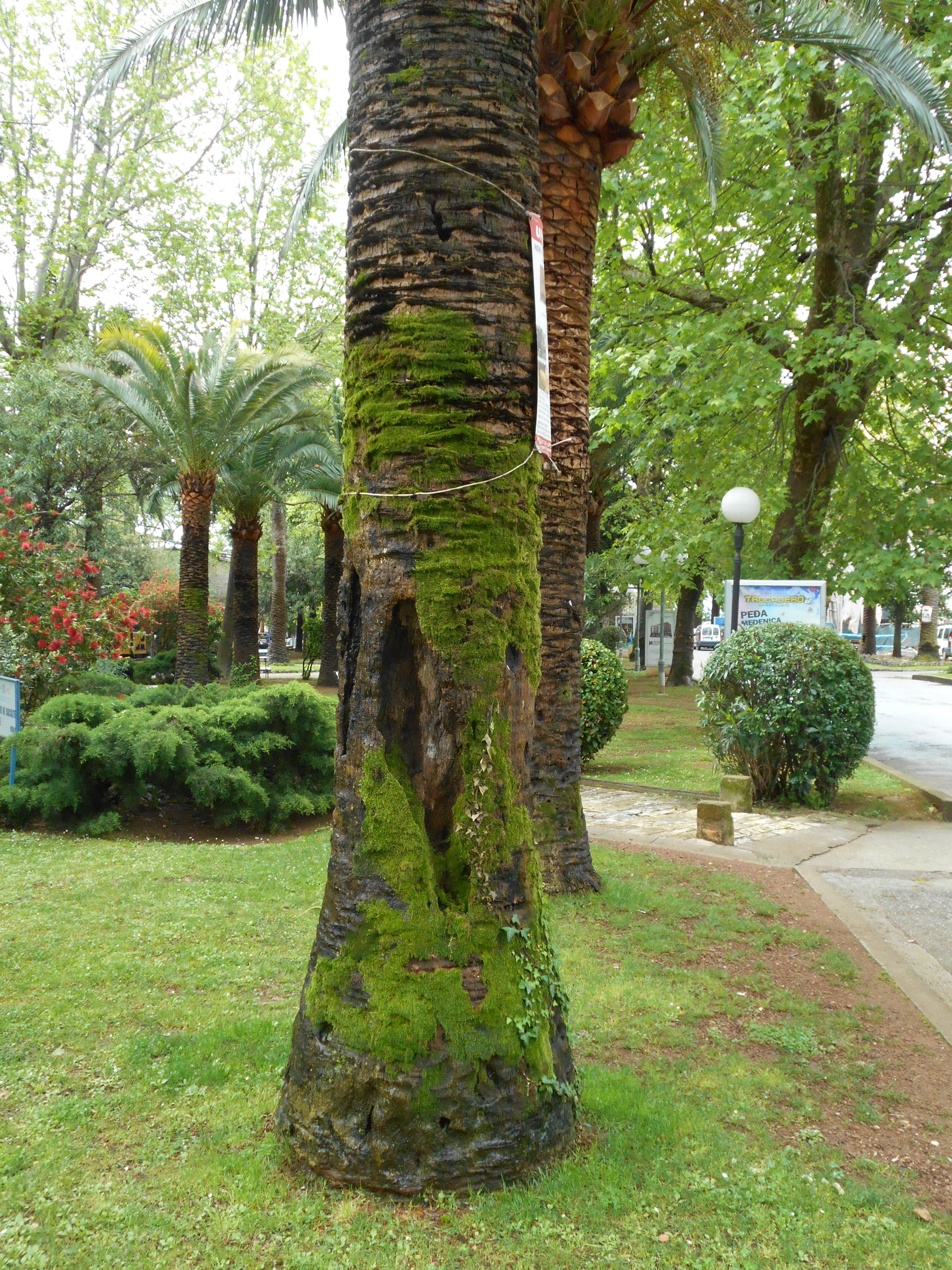 Phoenix palm (Phoenix canariensis) infected by the red palm weevil (Rhynchophorus ferrugineus). Budva, Montenegro, may 2016.